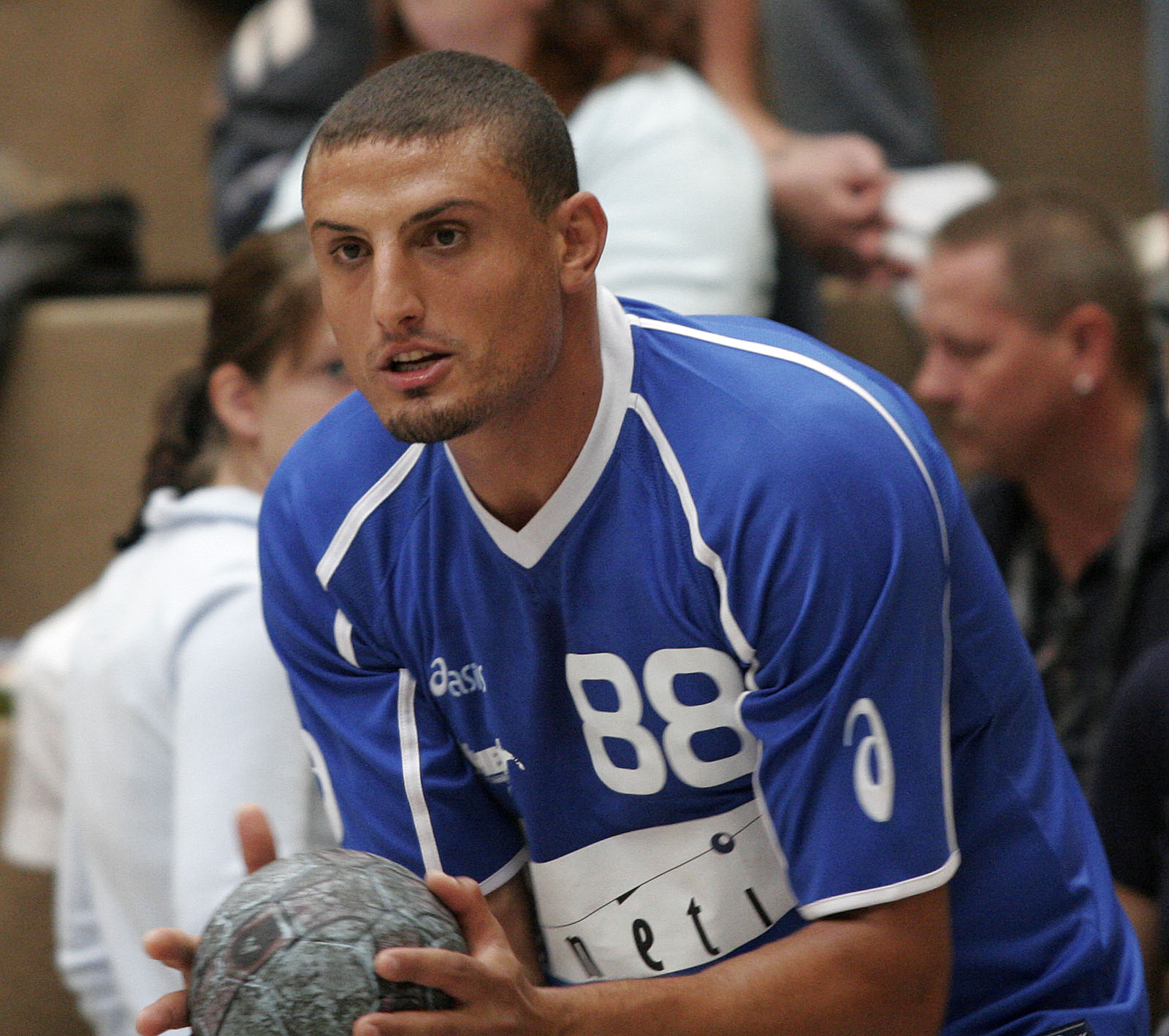 The Tunisian Handballplayer Wissem Hmam (Montpellier HB) during the Schlecker Cup 2007 in Ehingen (Germany)